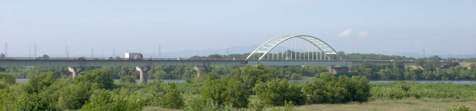 Shin Ishikari Ohashi bridge, Ebetsu, Hokkaido, Japan